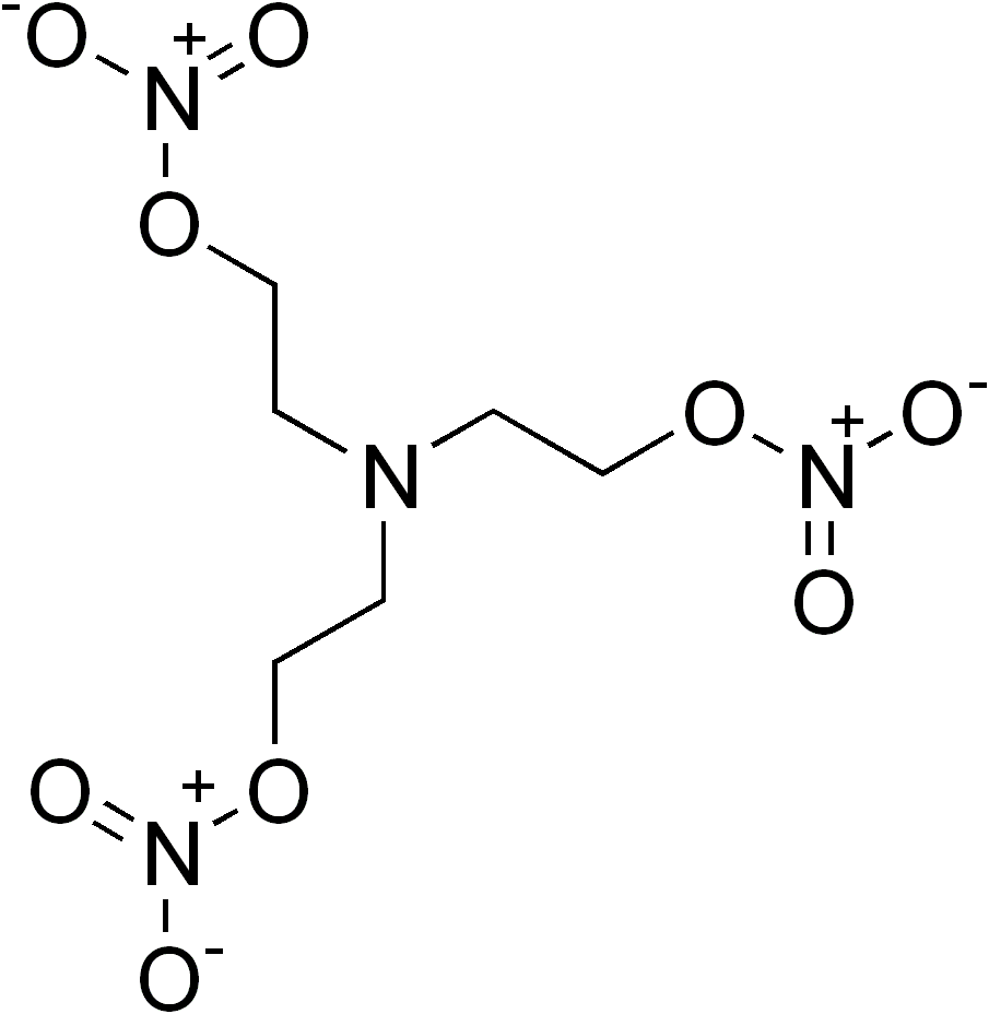 chemical structure of trolnitrate